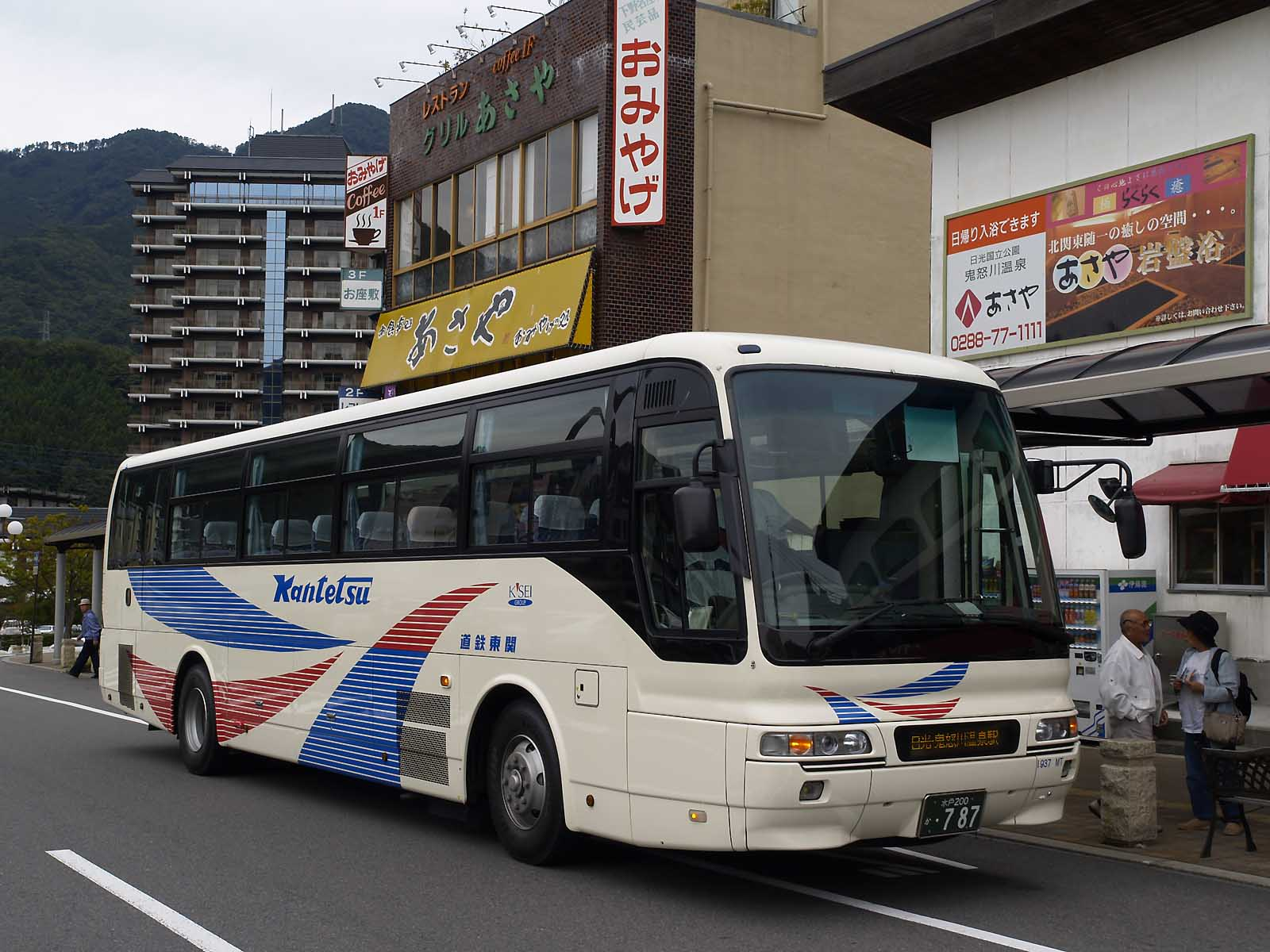 Kanto Railway Bus Mito and Nikko Line, arrived at Kinugawa Onsen Station. Line opened on September 2009, closed on April 2010. Model: Mitsubishi Fuso Aero Bus PJ-MS86JP License plate: IBM200 KA0787